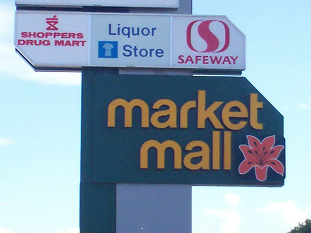 This is the sign for Market Mall in Saskatoon, Saskatoon.